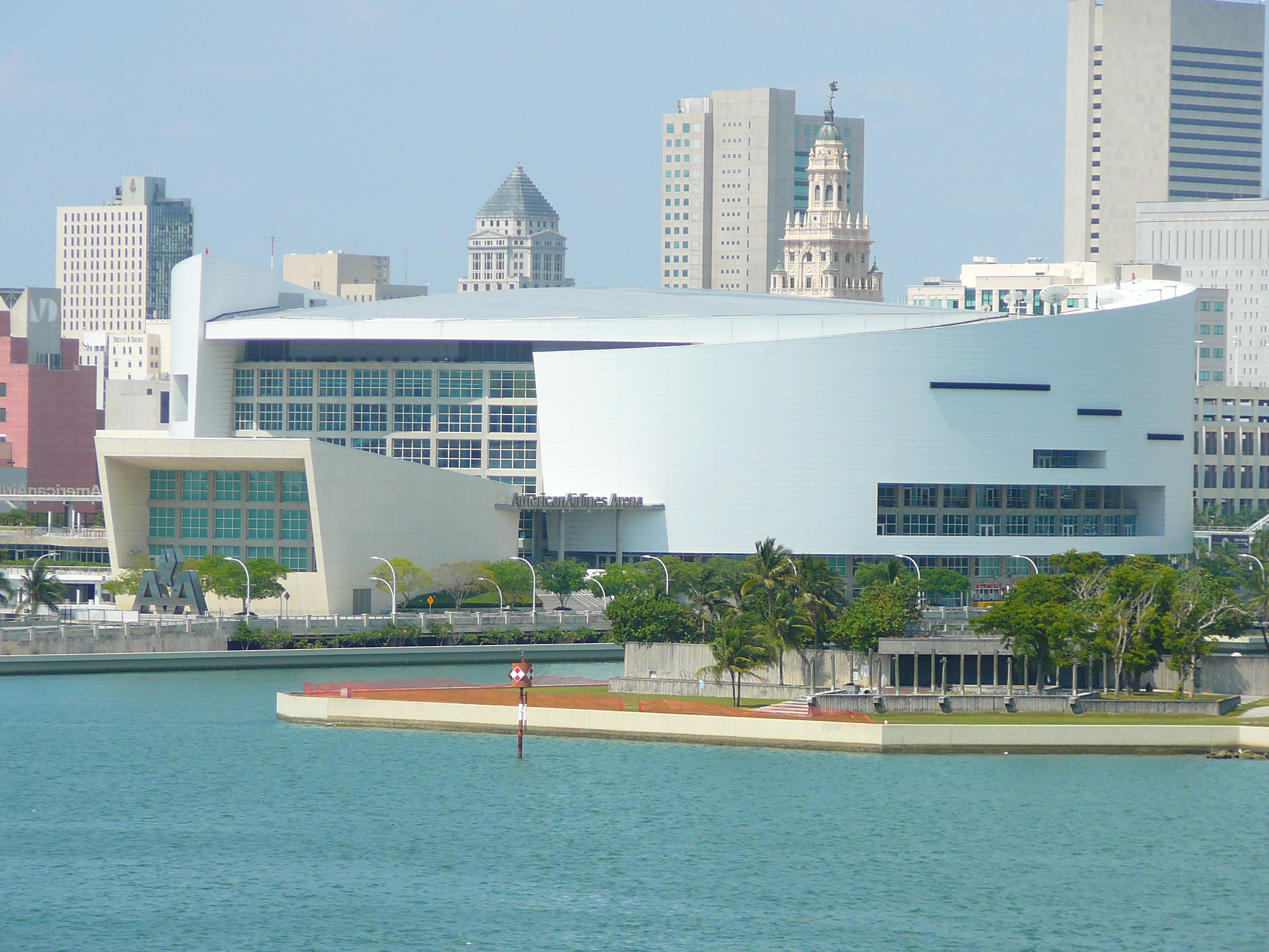 Digital photo taken by Marc Averette. The backside of the American Airlines Arena in Downtown Miami as seen from the east, 5/17/2008